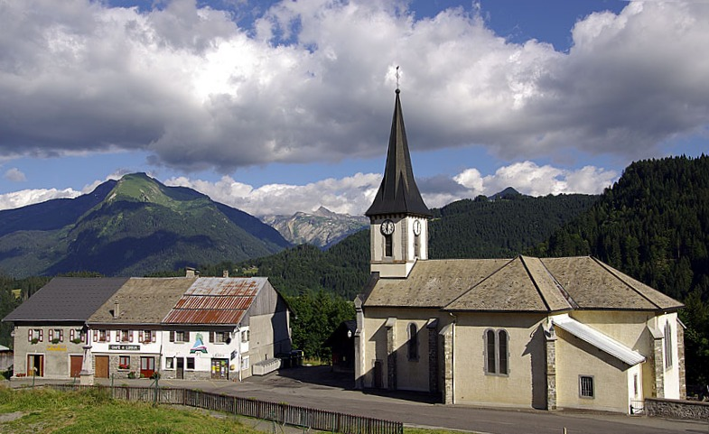 La Côte d'Arbroz Village, in the heart of the Vallée d'Aulps, Haute-Savoie, France